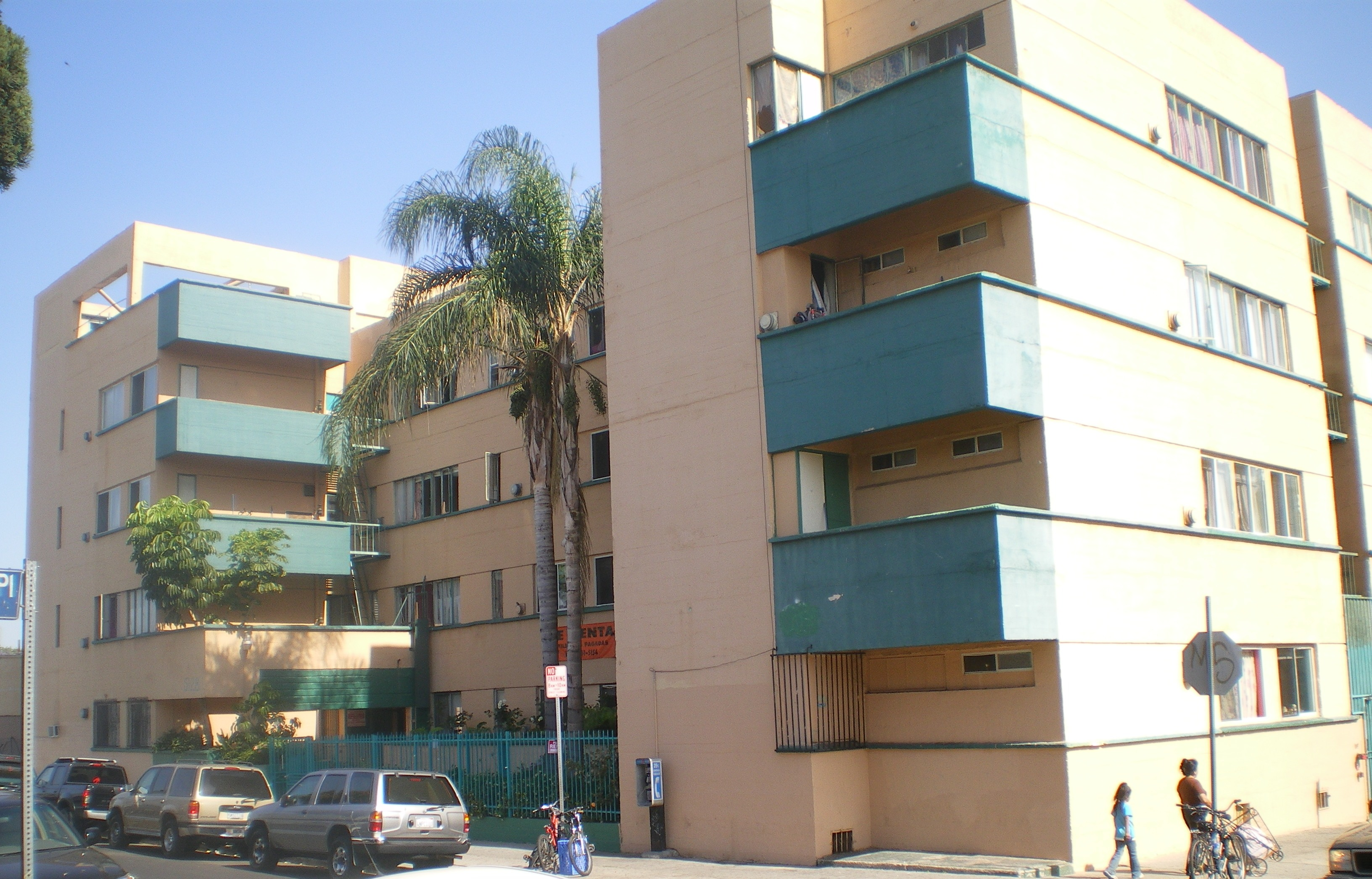 Jardinette Apartments — 5128 Marathon Street, East Hollywood, Los Angeles, California. First U.S. commision for Richard Neutra (built 1927), and "America's first multi-family International-style building." The 43 unit garden apartment building is a Los Angeles Historic-Cultural Monument, and on the National Register of Historic Places in Los Angeles.